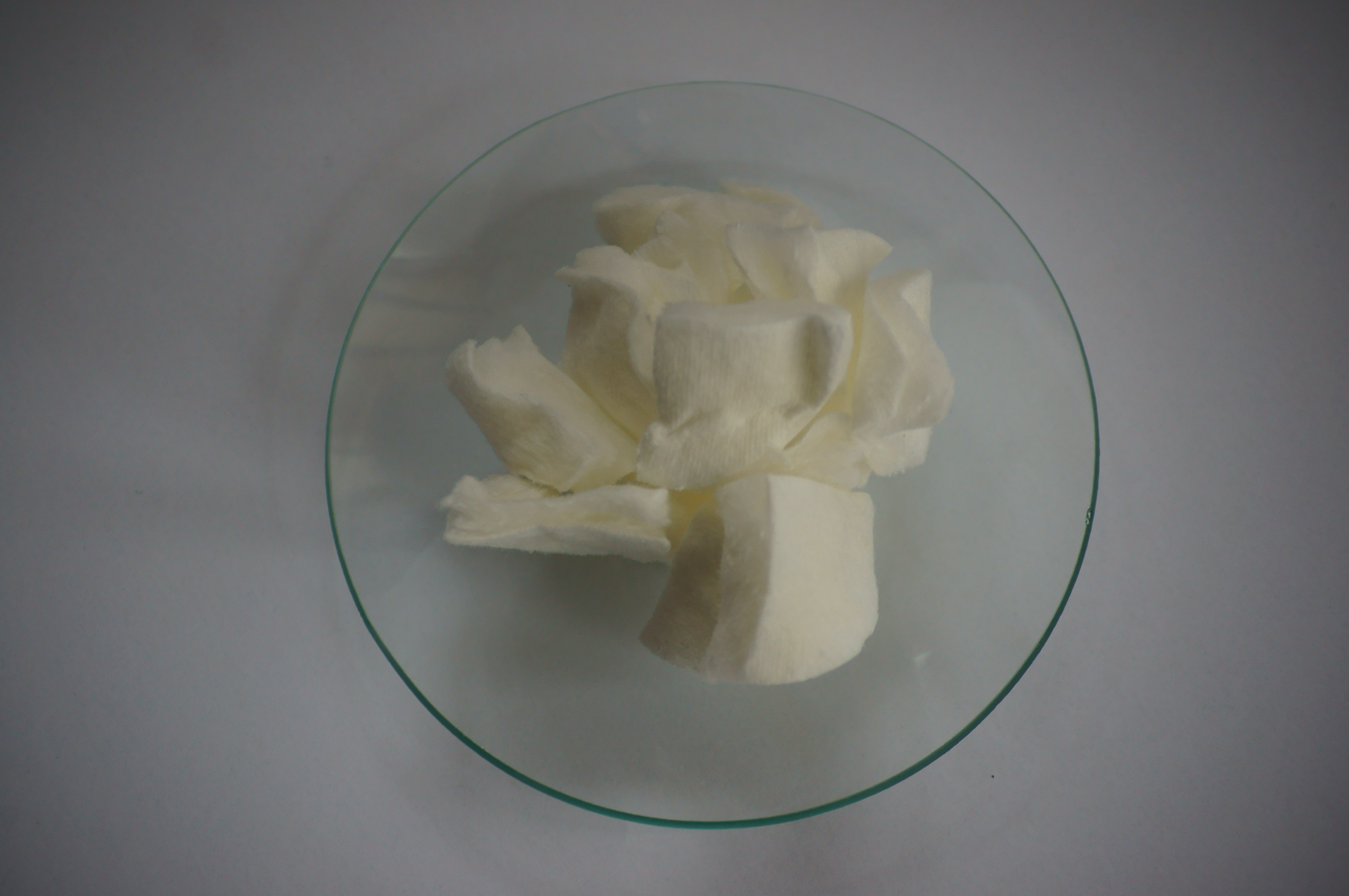 Cosmetic pads made of nitrocellulose.